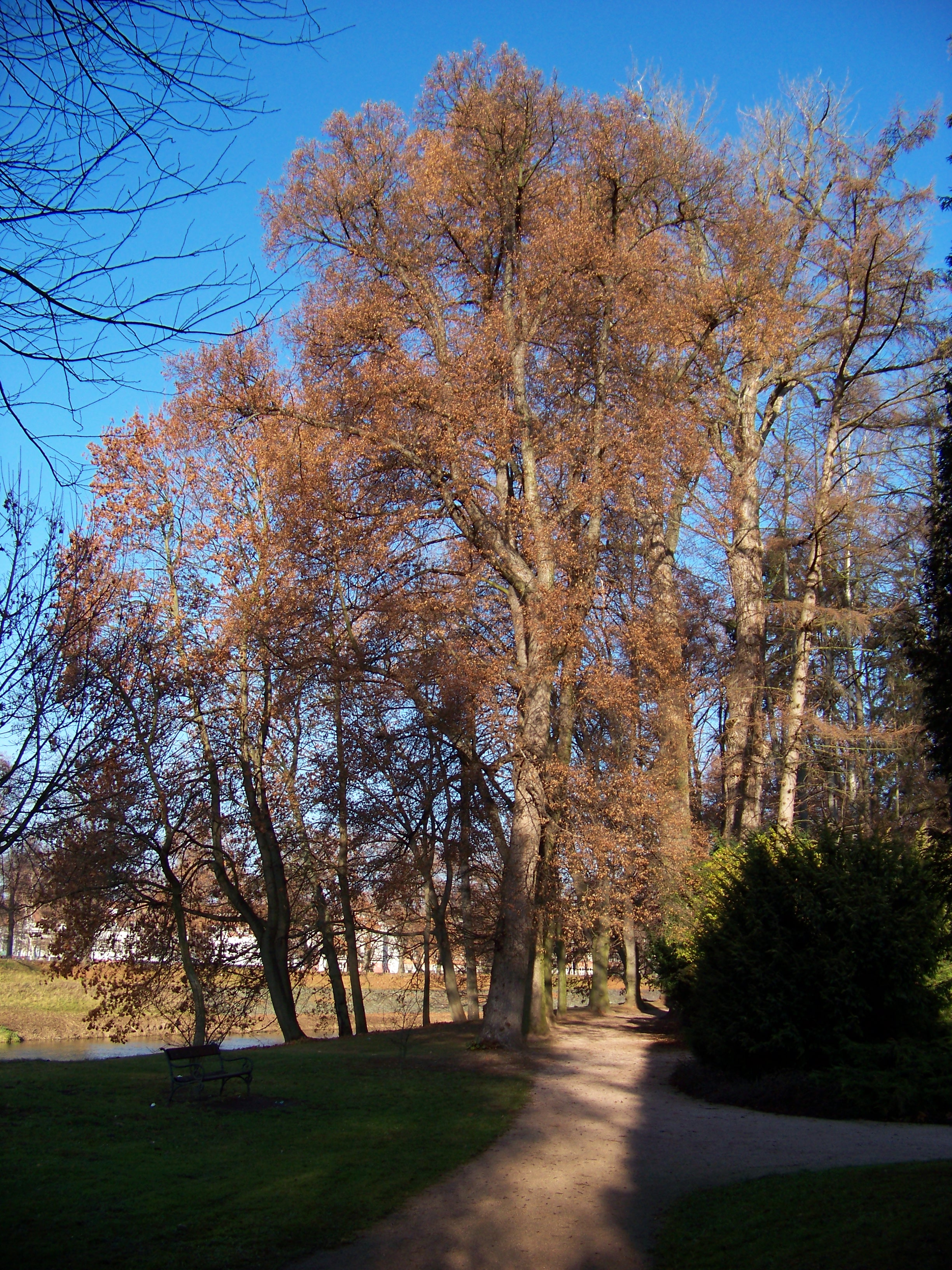 Hradec Králové, Hradec Králové District, Hradec Králové Region, the Czech Republic. Jirásek Park and Elbe river.